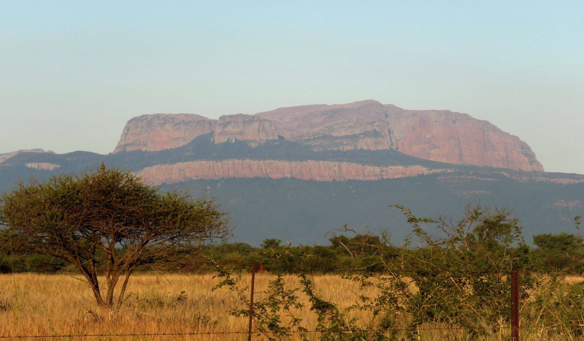 View on Blouberg in northern Limpopo, South-Africa